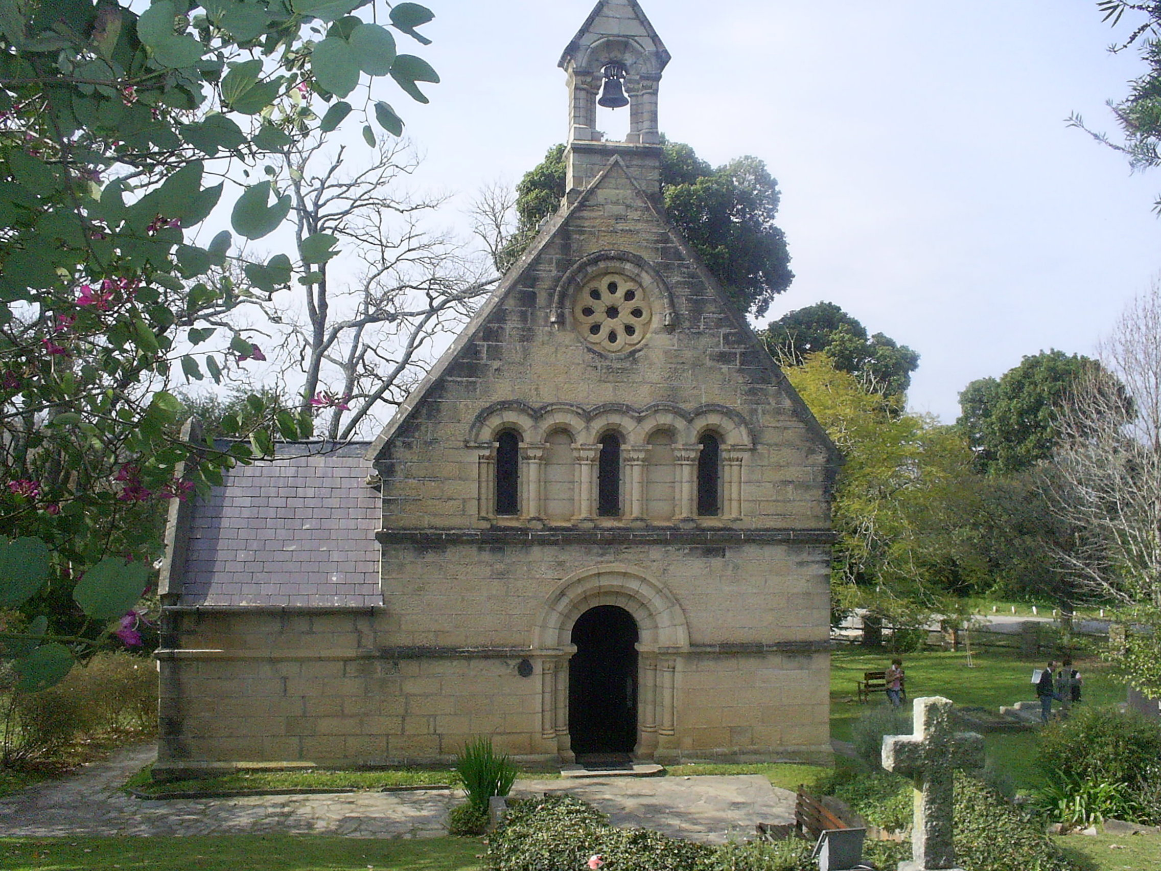 West end of the Holy Trinity Church, Belvidere, Knysna This media shows a South African Protected Site with SAHRA file reference 9/2/052/0014.